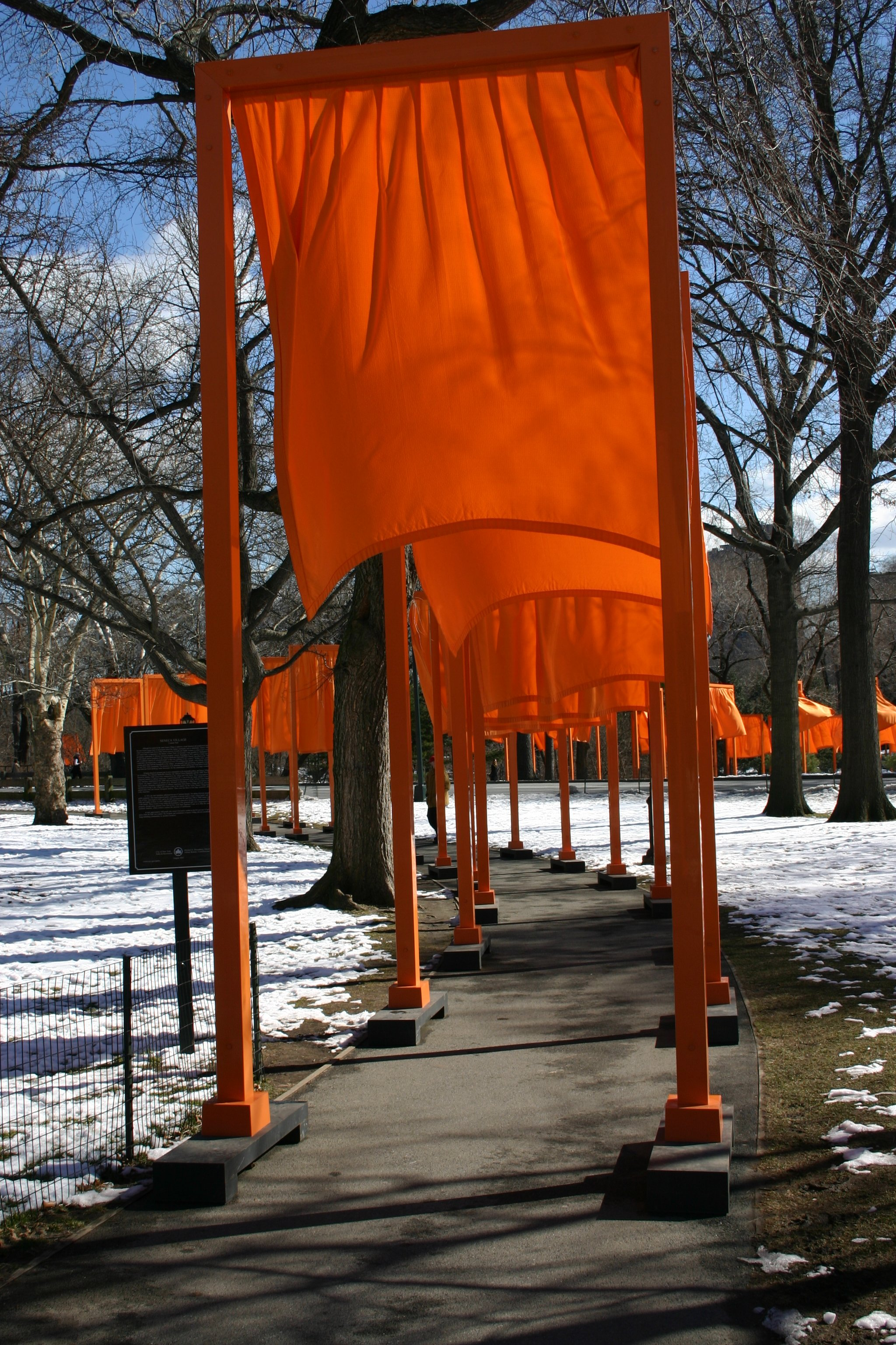 The Gates